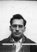 Wartime ID badge photo of Paul Olum uploaded from